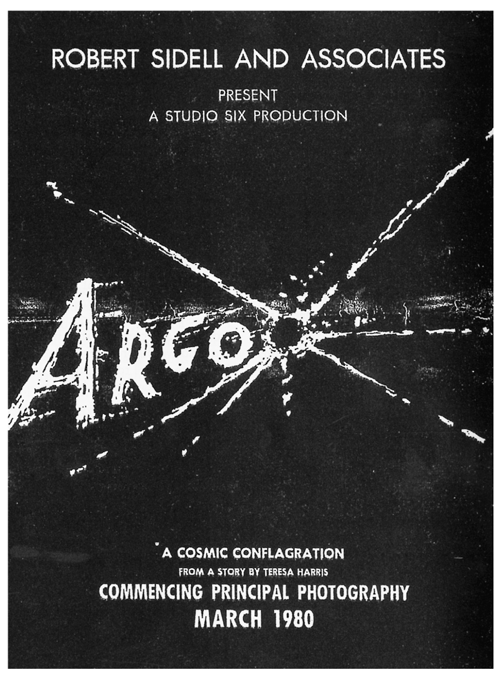 Poster for the movie Argo created by the CIA as part of the Canadian Caper. The fictitious film was part of an elaborate back-story used in the rescue of six U.S. diplomats from Tehran during the Iran hostage crisis.